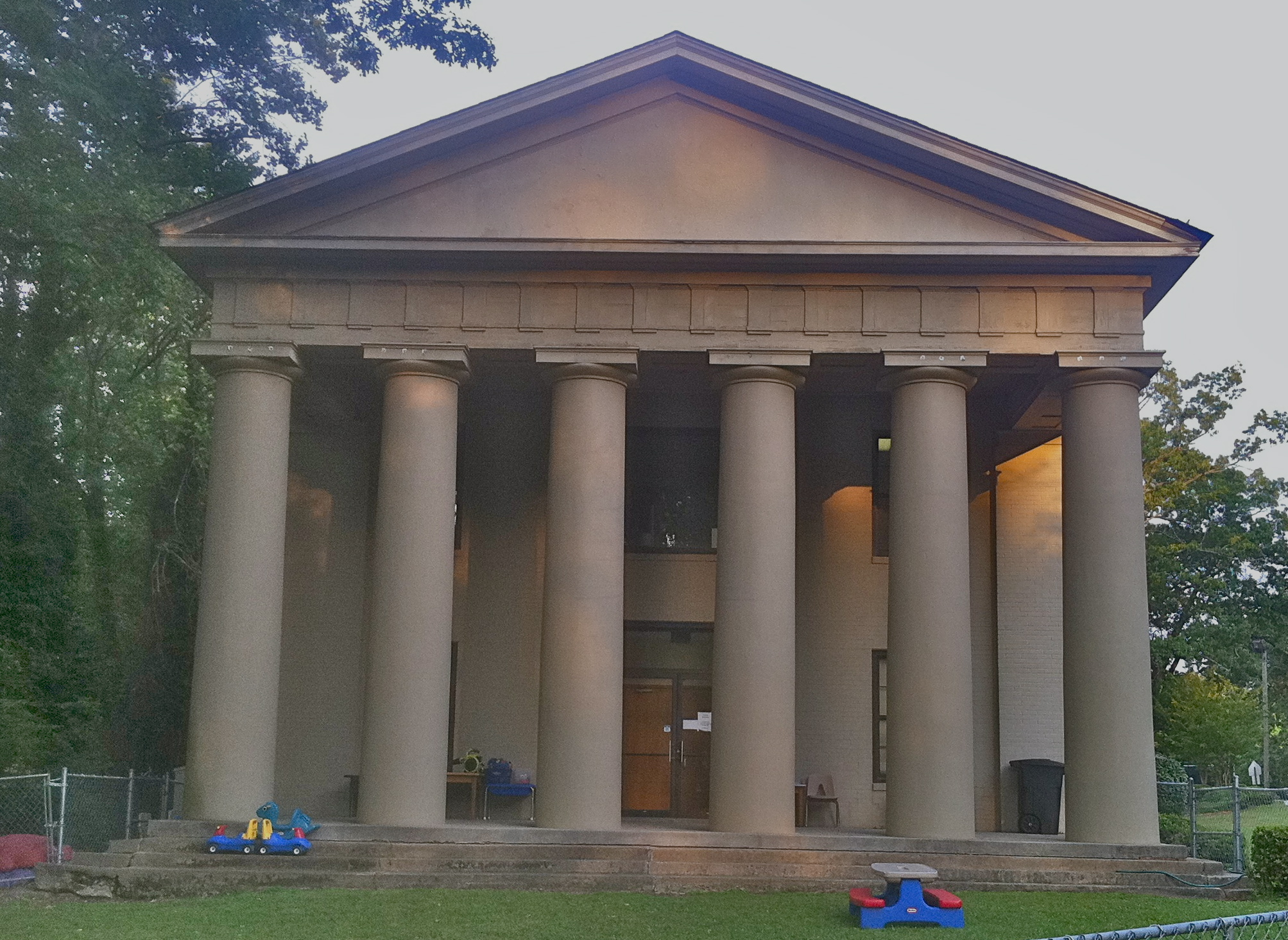 Arlington Hall, formerly Lanier University — in Morningside-Lenox Park, Atlanta.